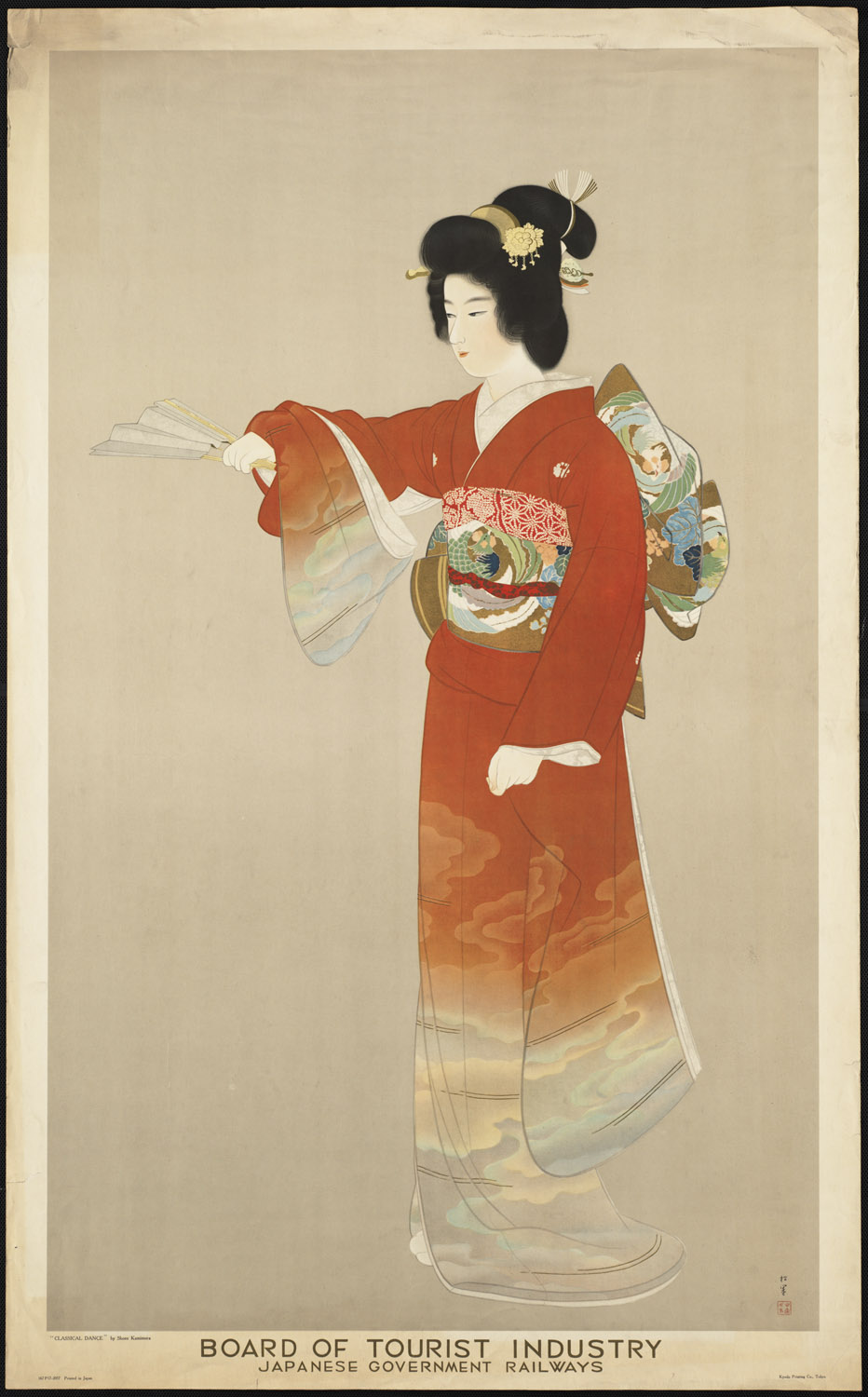 Accession No.: 08_05_000129 Title: Board of Tourist Industry poster, Japanese Government Railways Statement of responsibility: Shoen Kamimura Place of publication: Tokyo Publication information: Kyodo Printing Co. Ltd. Genre: Travel posters; Prints Medium: 1 print (poster) : color Notes: Title supplied by cataloger.; Caption under image: "Classical Dance" by Shoen Kamimura; Printed in Japan BPL Collection: Travel Posters BPL Department: Print Department